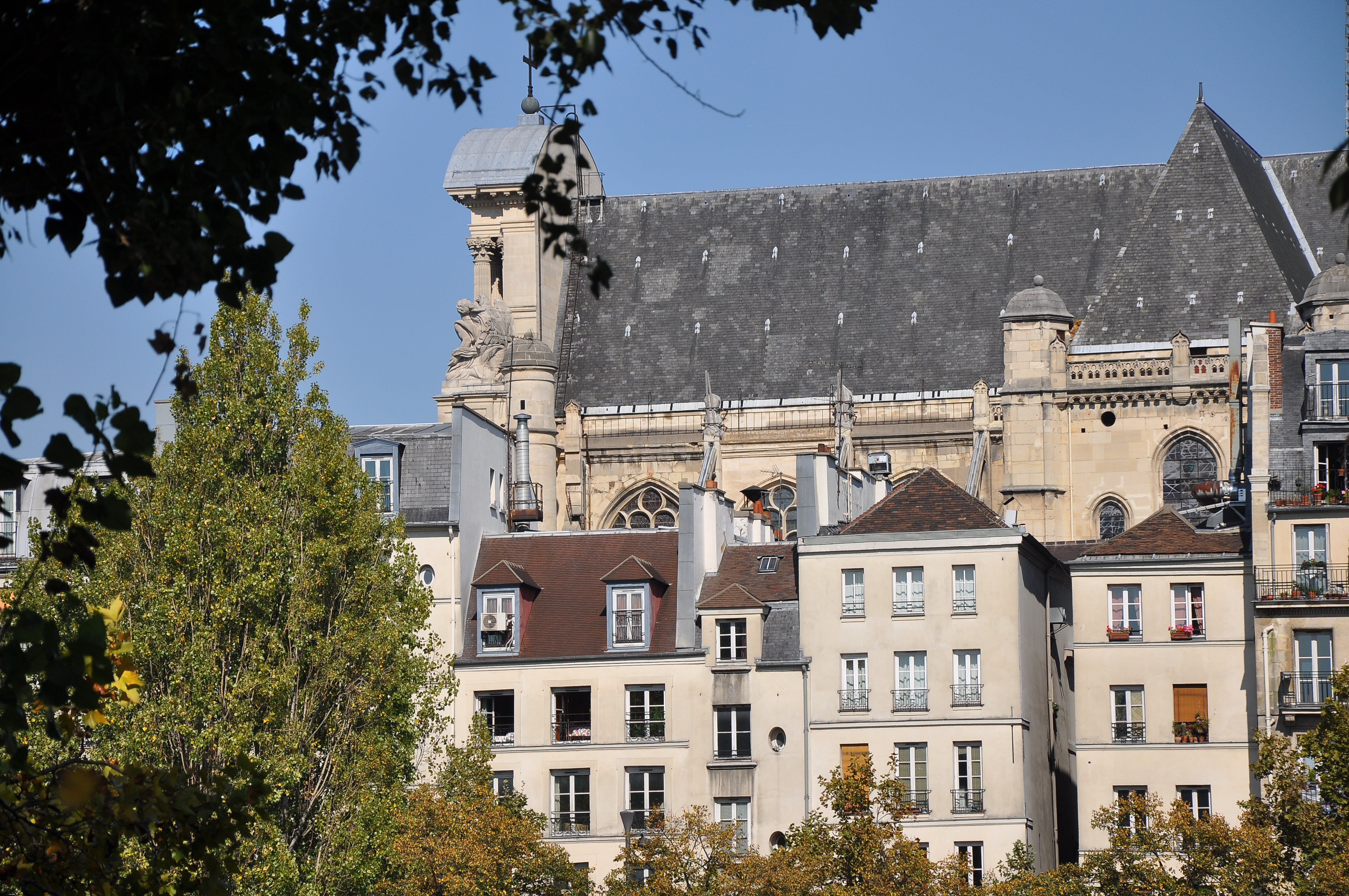 The church Église Saint-Gervais-Saint-Protais in the 4th arrondissement of Paris, France. View from the point of Île Saint-Louis.